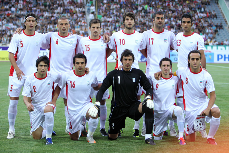 Iran national football team - 2011